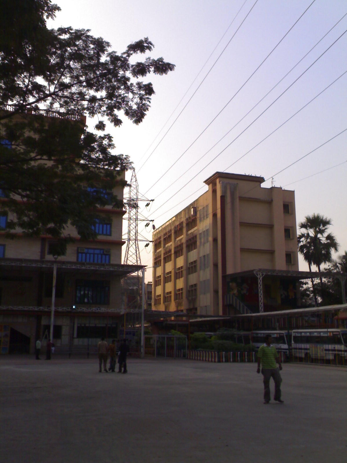 Thakur Vidya Mandir from the inside